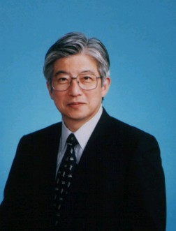 Heita Kawakatsu was inaugurated as Member of the 'Beautiful Country' Council on 2007.